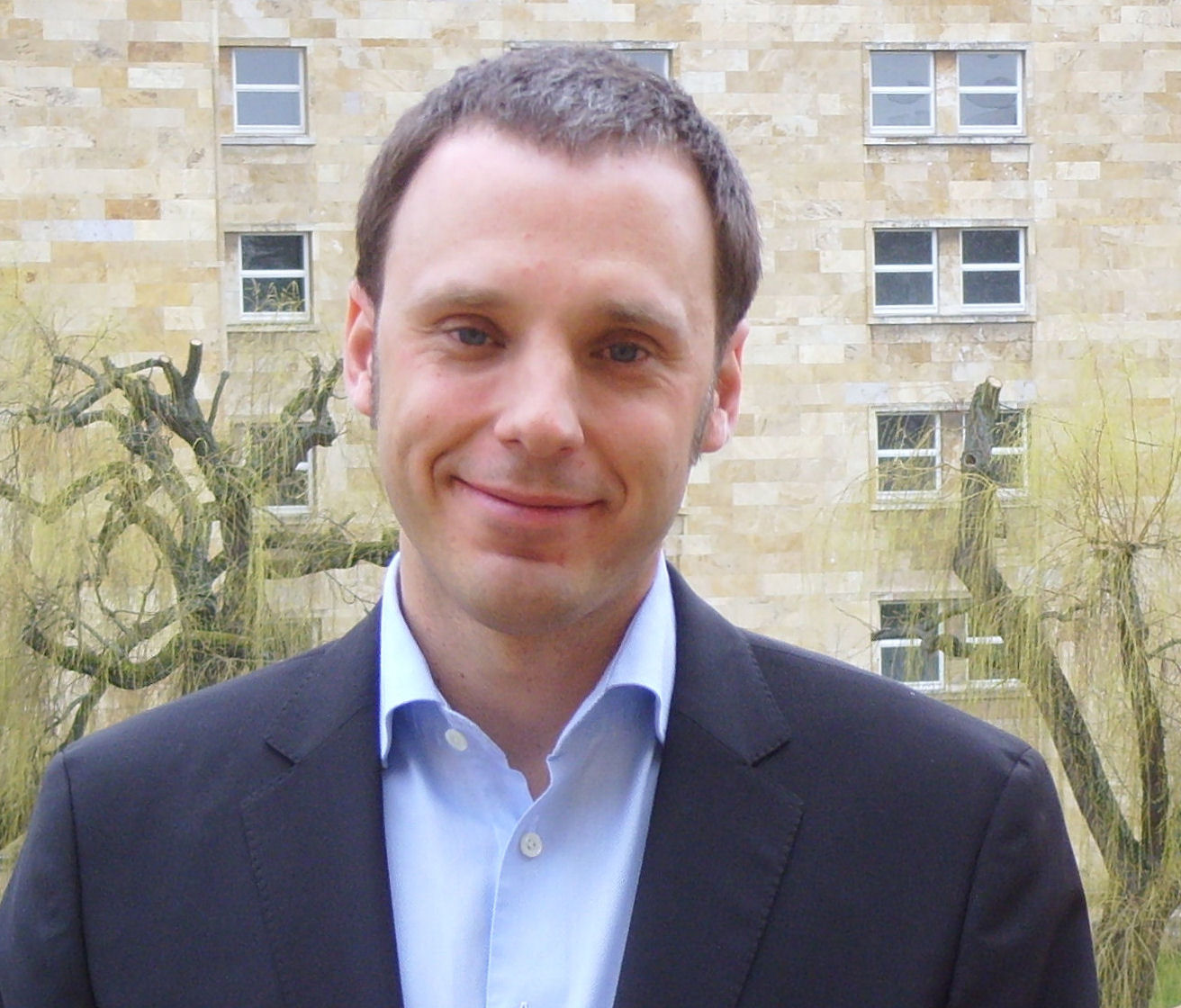 Stephan Grill, Paul Ehrlich and Ludwig Darmstaedter Prize for Young Researchers, 2011